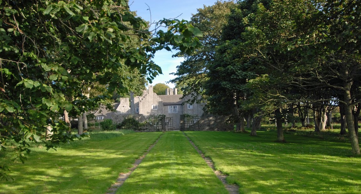 Approach to the West Terrace of Lambay Castle, within the walls.